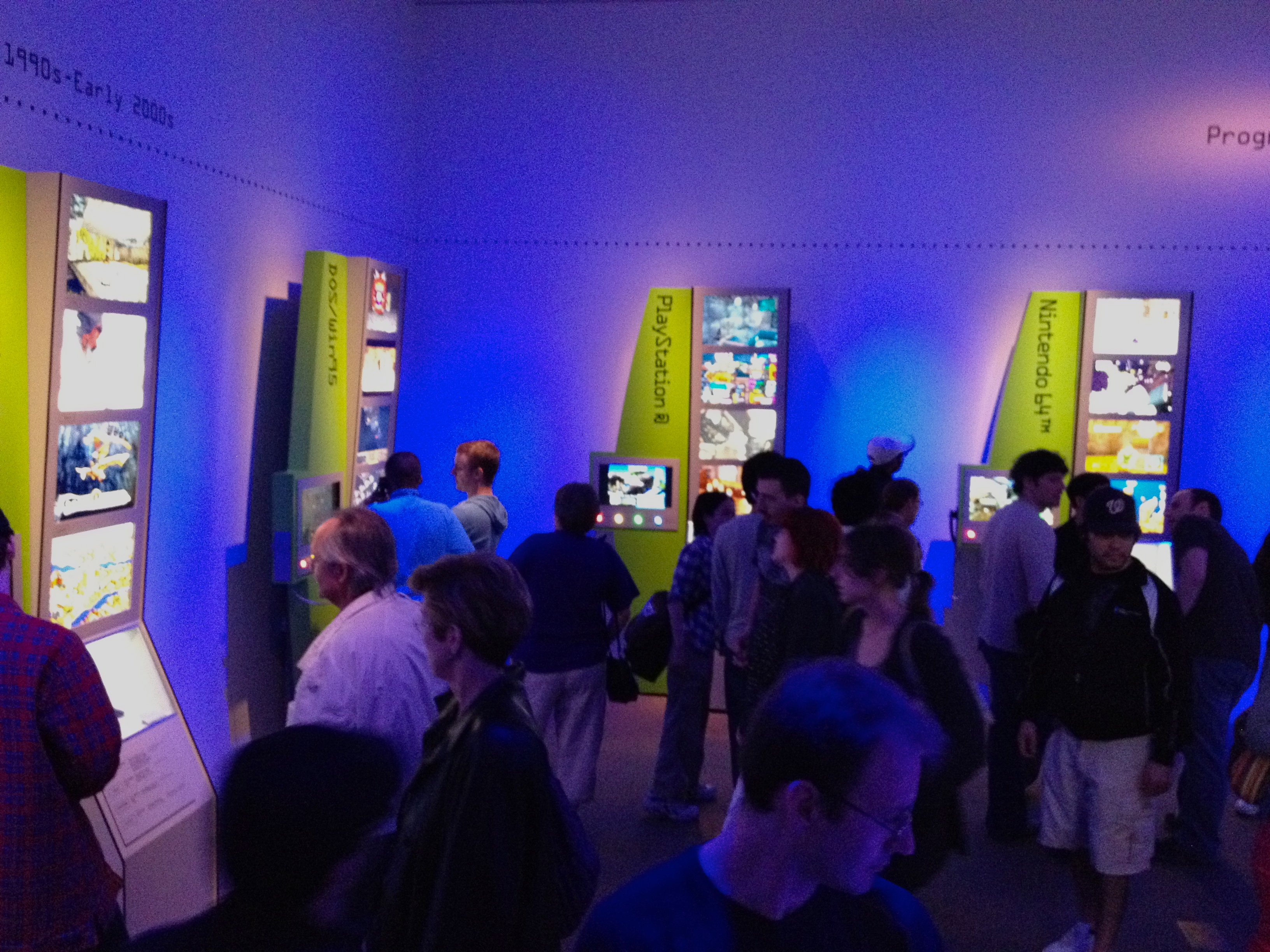 Exhibit at the Smithsonian American Art Museum (March 16, 2012 - September 30, 2012) Photos from opening weekend